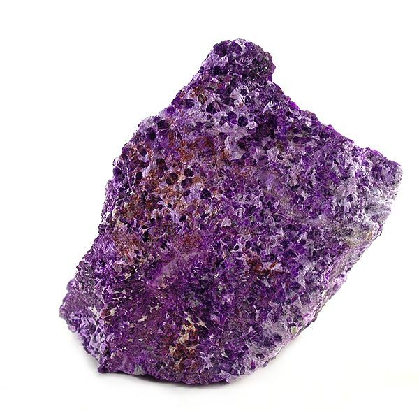 Sugilite Locality: Wessels Mine (Wessel's Mine), Hotazel, Kalahari manganese fields, Northern Cape Province, South Africa (Locality at ) Size: 6.5 x 3.7 x 2.9 cm. Sharp, deep purple crystals to 2 mm are emplaced in this matrix of massive sugilite. It is a beautiful and colorful specimen. Ex. Martin Zinn Collection.